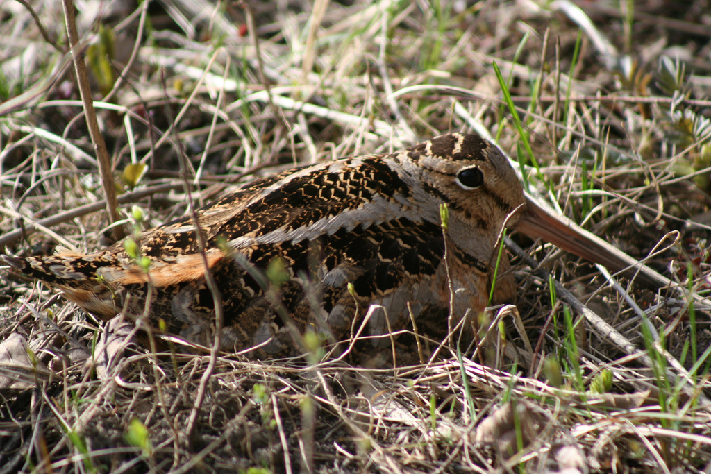 American Woodcock Scolopax minor, Parc-nature de la Pointe-Aux-Prairies, Montreal, Canada.